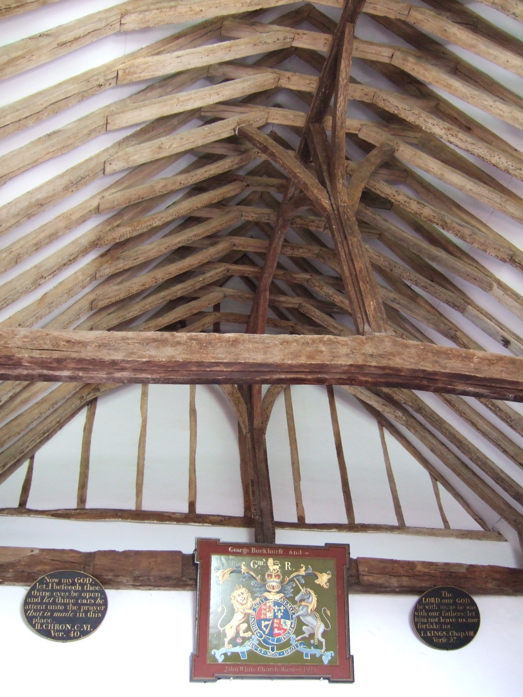 Roof beams in St Clement's parish church, Old Romney, Kent, England